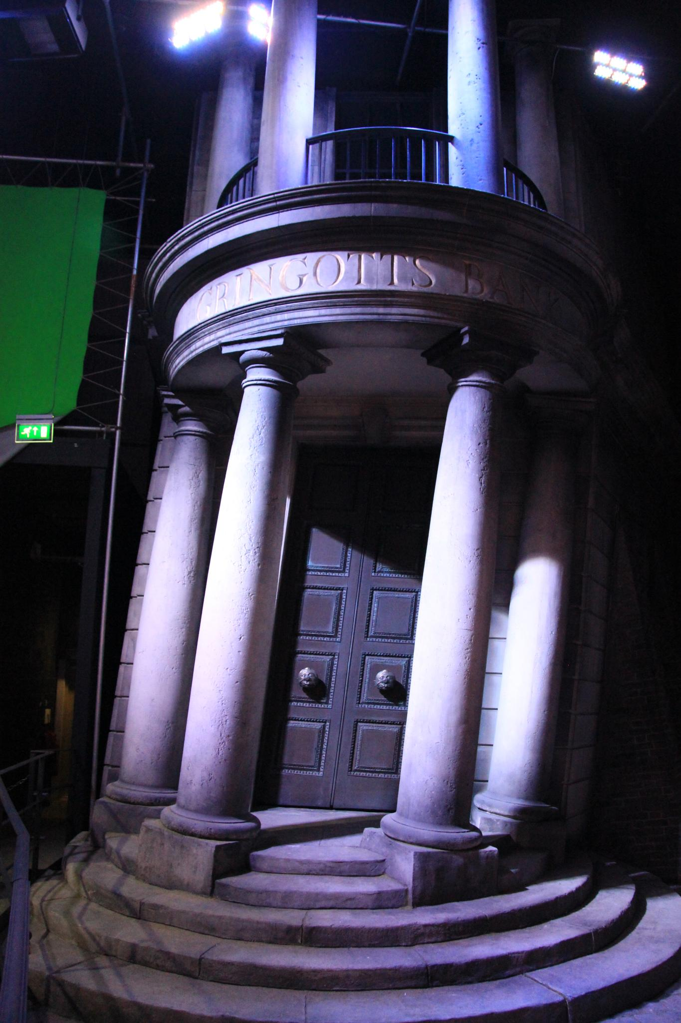 Warner Bros. Studio Tour London: The Making of Harry Potter.